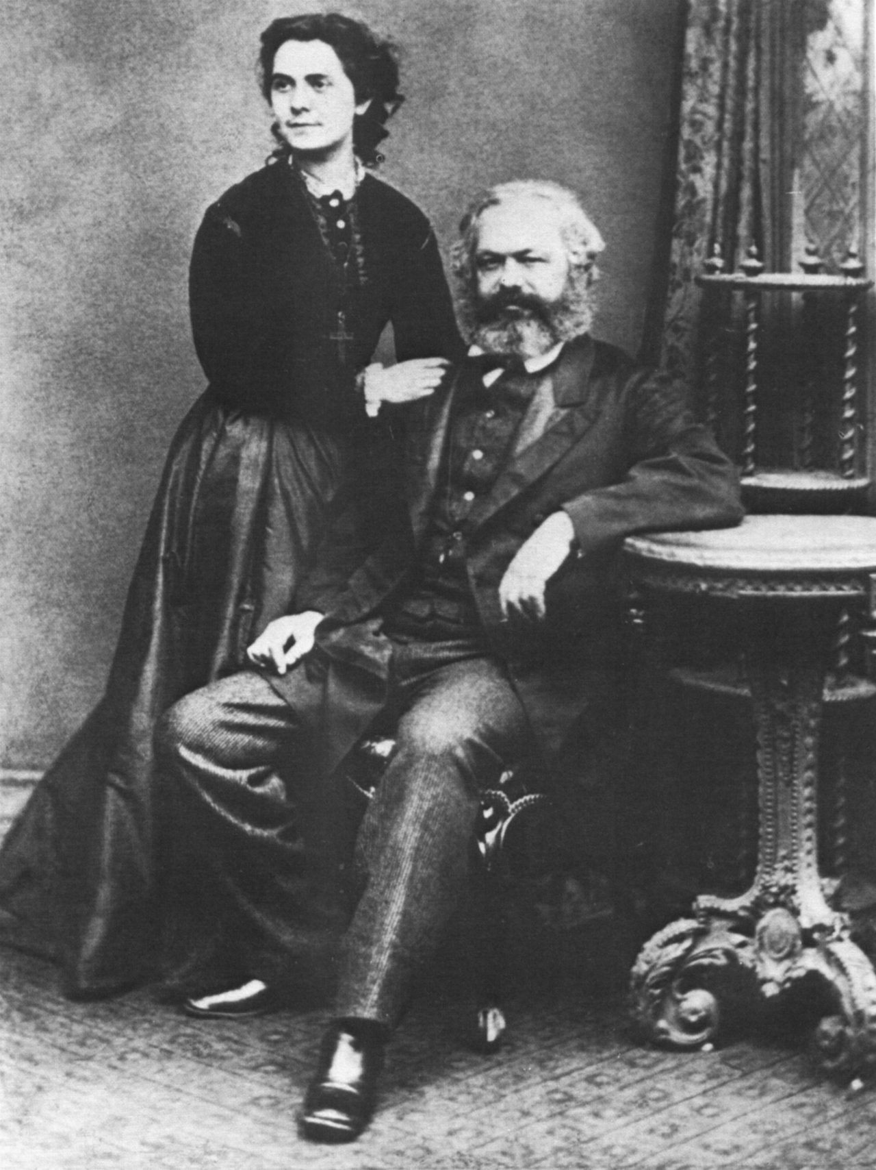 Karl and his daughter Jenny Marx